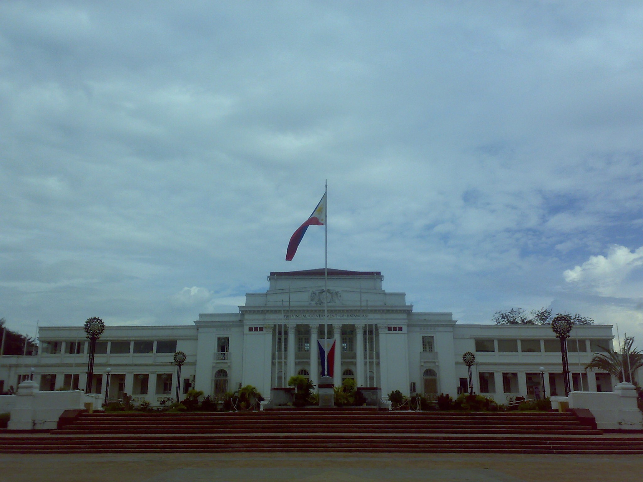 Batangas Provincial Capitol, Batangas City , Philippines (2008-06-27)